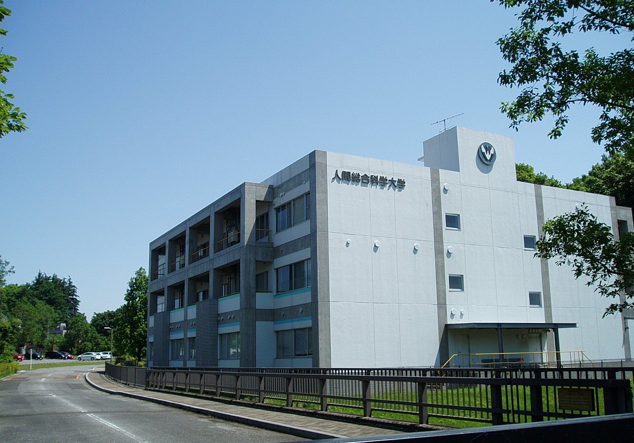 Department of Health and Nutrition at Hasuda Campus, the University of Human Arts and Sciences, located in Magome, Iwatsuki-ku, Saitama, Saitama Prefecture, Japan.